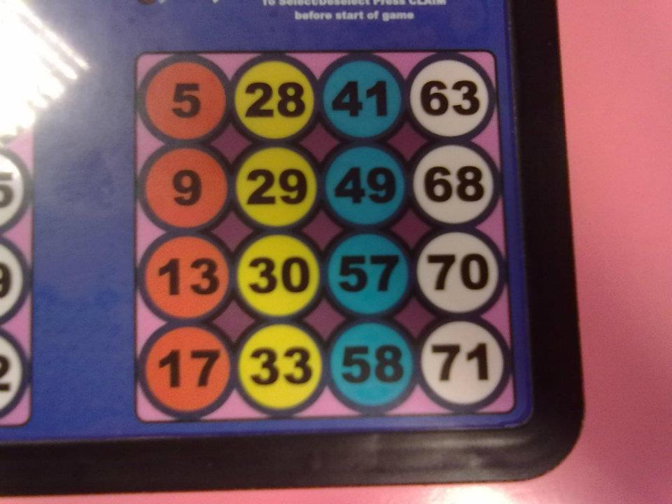 a bingo 80 cashline board used to play mechanised cash bingo